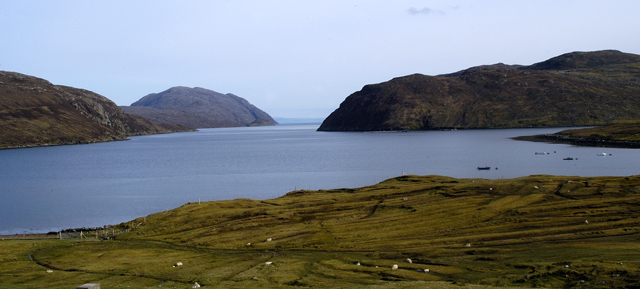 Loch Seaforth. Taken from the A859 looking southeast down Loch Seaforth which divides Lewis from Harris. Note the old peat workings now covered in sheep grazing in the foreground.